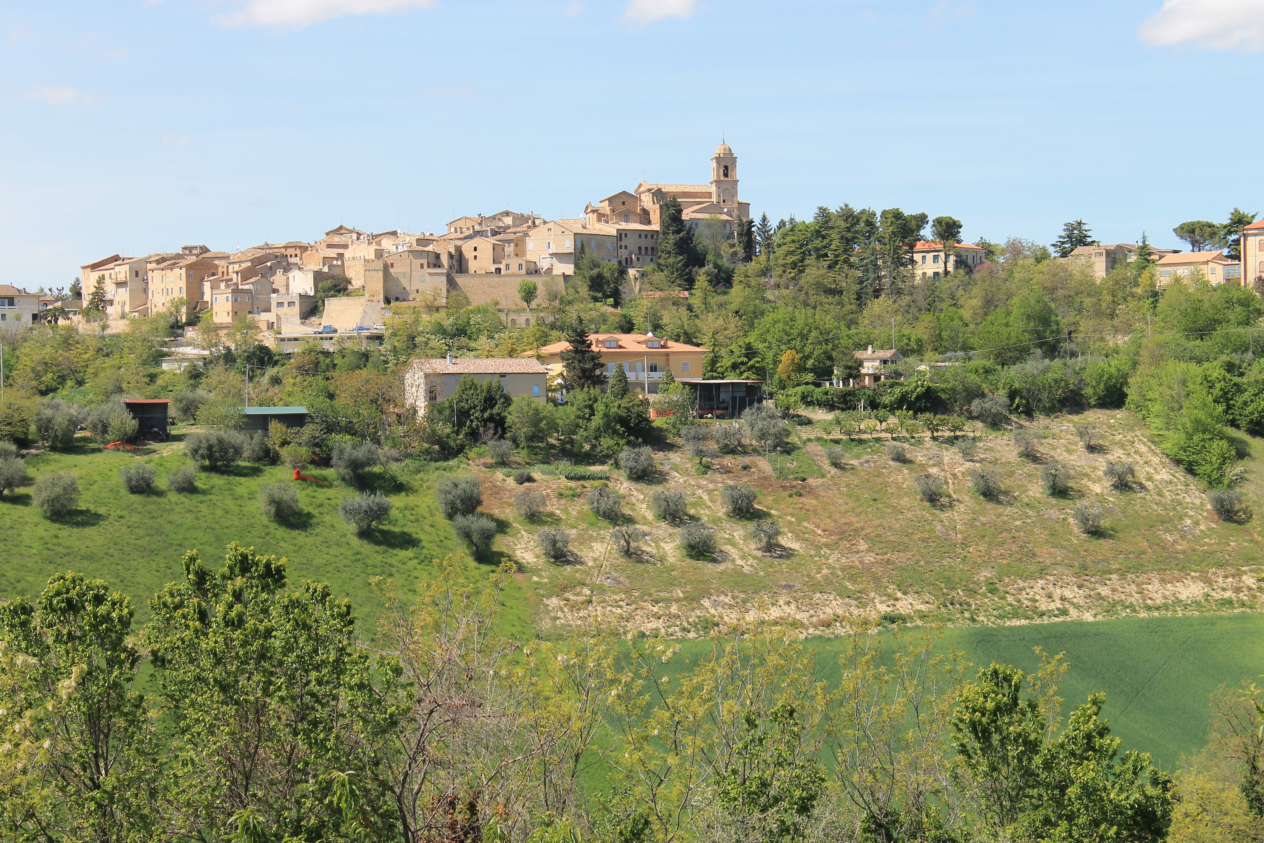 Monte Giberto, italian town near Fermo.